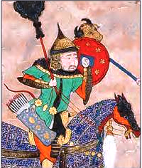 Painting of Human in The Shahnama of Shah Tahmasp